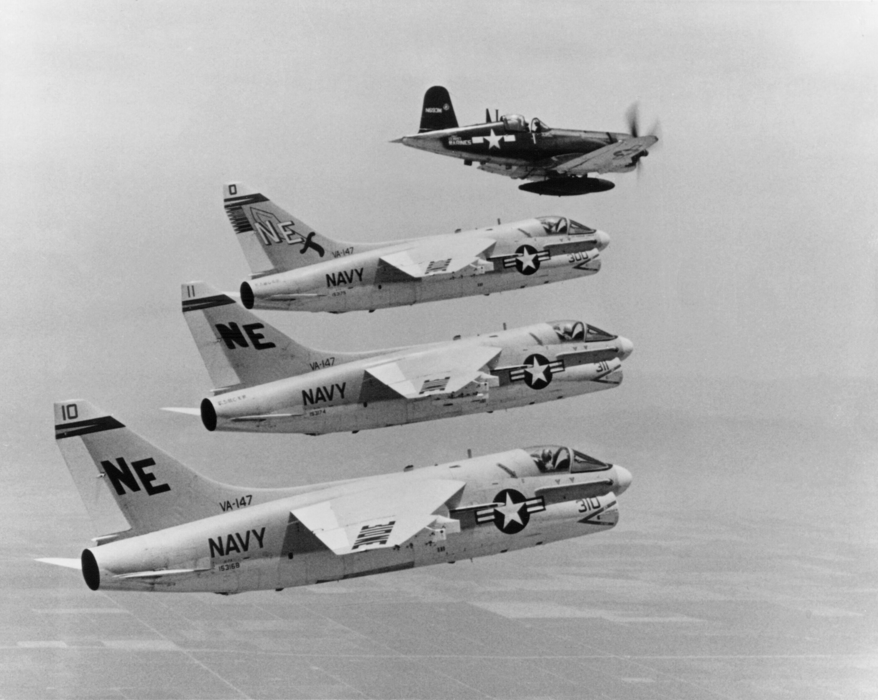 Lynn Garrison in his Vought F4U-7 Corsair (BuNo 133693) leading LTV A-7A-4a-CV Corsair II fighters (BuNo 153168, 153174, 153175) of U.S. Navy Attack Squadron VA-147 Argonauts over Naval Air Station Lemoore, California (USA), on 7 July 1967 before their first deployment to Vietnam aboard the aircraft carrier USS Ranger (CVA-61). The A-7A "NE-300" is the aircraft of the Air Group Commander (CAG) of Attack Carrier Air Wing 2 (CVW-2). The A-7A 153175 suffered an engine failure over the Gulf of Tonkin on 31 October 1968. The pilot ejected and was rescued. The F4U-7 133693 had been delivered to the Aéronavale (French naval air service, s/n 692) in 1952. It was returned to the MAAG office in the US Embassy Paris. Lynn Garrison purchased this aircraft through the MAAG office in 1964. At that time he founded the Air Museum of Canada. Garrison moved to California where he formed the American Aerospace Museum and registered the Corsair with this organization. as N693M The plane finally crashed and was destroyed near Brown Field, San Diego, California, on 10 May 1987.